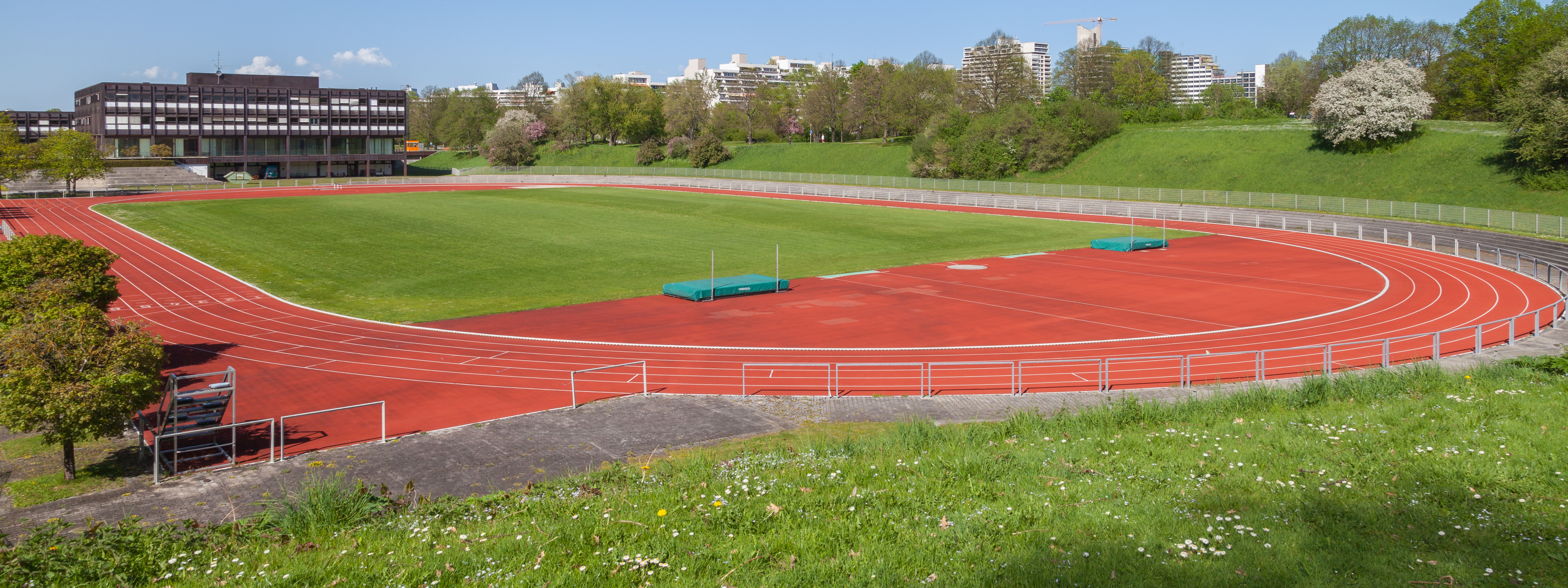 University Sport Center, Olympiapark, Munich, Germany